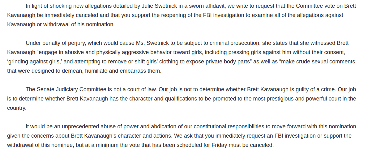 In light of shocking new allegations detailed by Julie Swetnick in a sworn affidavit, we write to request that the Committee vote on Brett Kavanaugh be immediately canceled and that you support the reopening of the FBI investigation to examine all of the allegations against Kavanaugh or withdrawal of his nomination. Under penalty of perjury, which would cause Ms. Swetnick to be subject to criminal prosecution, she states that she witnessed Brett Kavanaugh “engage in abusive and physically aggressive behavior toward girls, including pressing girls against him without their consent, ‘grinding against girls,’ and attempting to remove or shift girls’ clothing to expose private body parts” as well as “make crude sexual comments that were designed to demean, humiliate and embarrass them.” The Senate Judiciary Committee is not a court of law. Our job is not to determine whether Brett Kavanaugh is guilty of a crime. Our job is to determine whether Brett Kavanaugh has the character and qualifications to be promoted to the most prestigious and powerful court in the country. It would be an unprecedented abuse of power and abdication of our constitutional responsibilities to move forward with this nomination given the concerns about Brett Kavanaugh’s character and actions. We ask that you immediately request an FBI investigation or support the withdrawal of this nominee, but at a minimum the vote that has been scheduled for Friday must be canceled.